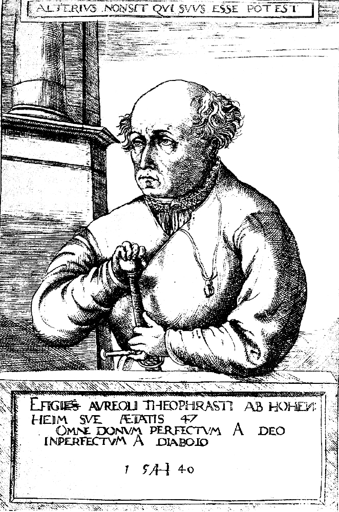 Depiction of Paracelsus. ALTERIUS NON SIT QUI SUUS ESSE POTEST EFIGIES AUREOLI THEOPHRASTI AB HOHEN: HEIM SUE AETATIS 47 OMNE DONUM PERFECTUM A DEO INPERFECTUM A DIABOLO 15AH40